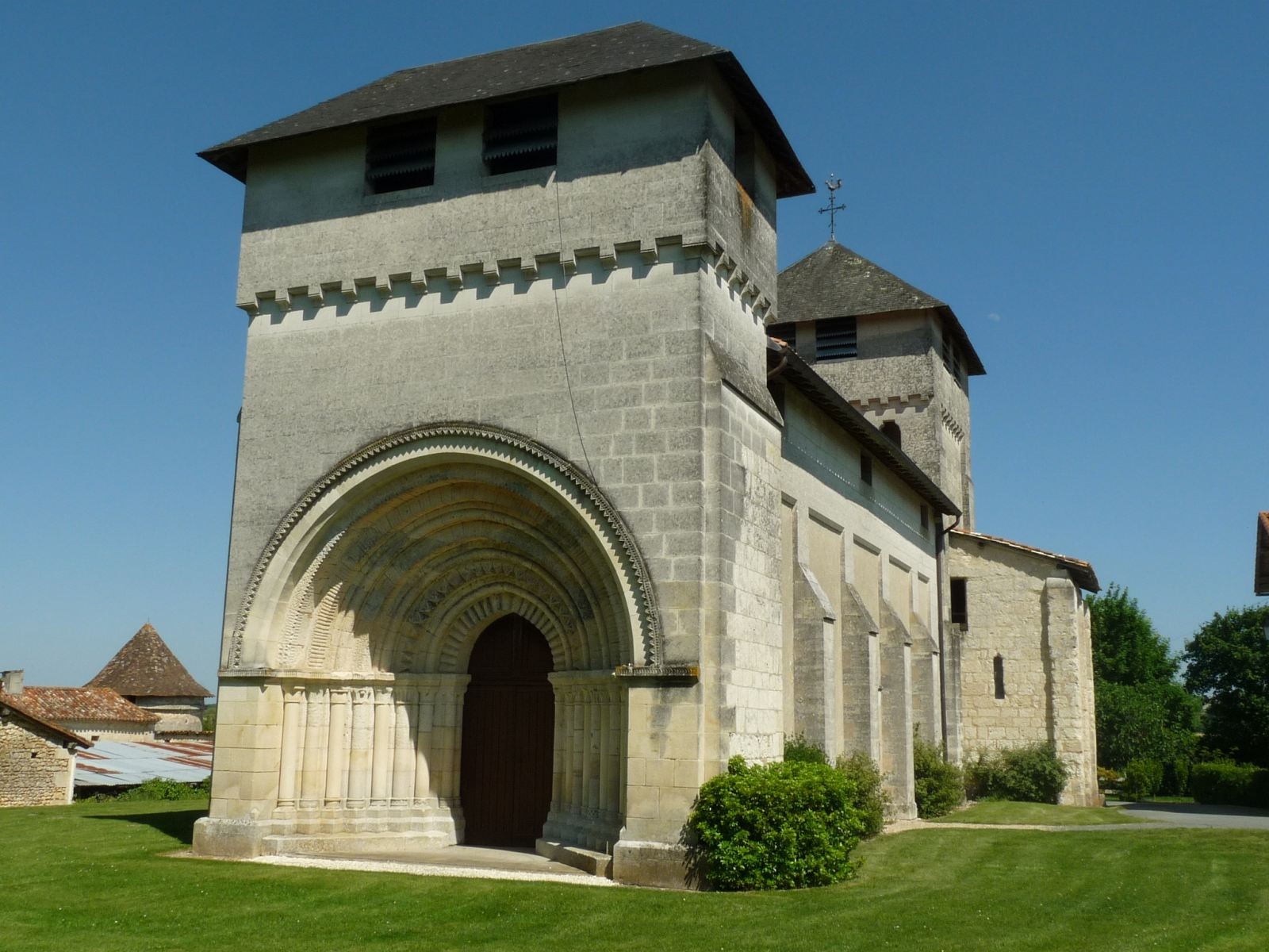 church of Cumond, St-Antoine-Cumond , Dordogne, SW France